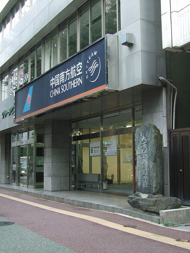 China Southern Airlines Fukuoka office and Ninjinbatakejuku monument (right side), Hakata Ward, Fukuoka City, Fukuoka, Japan.